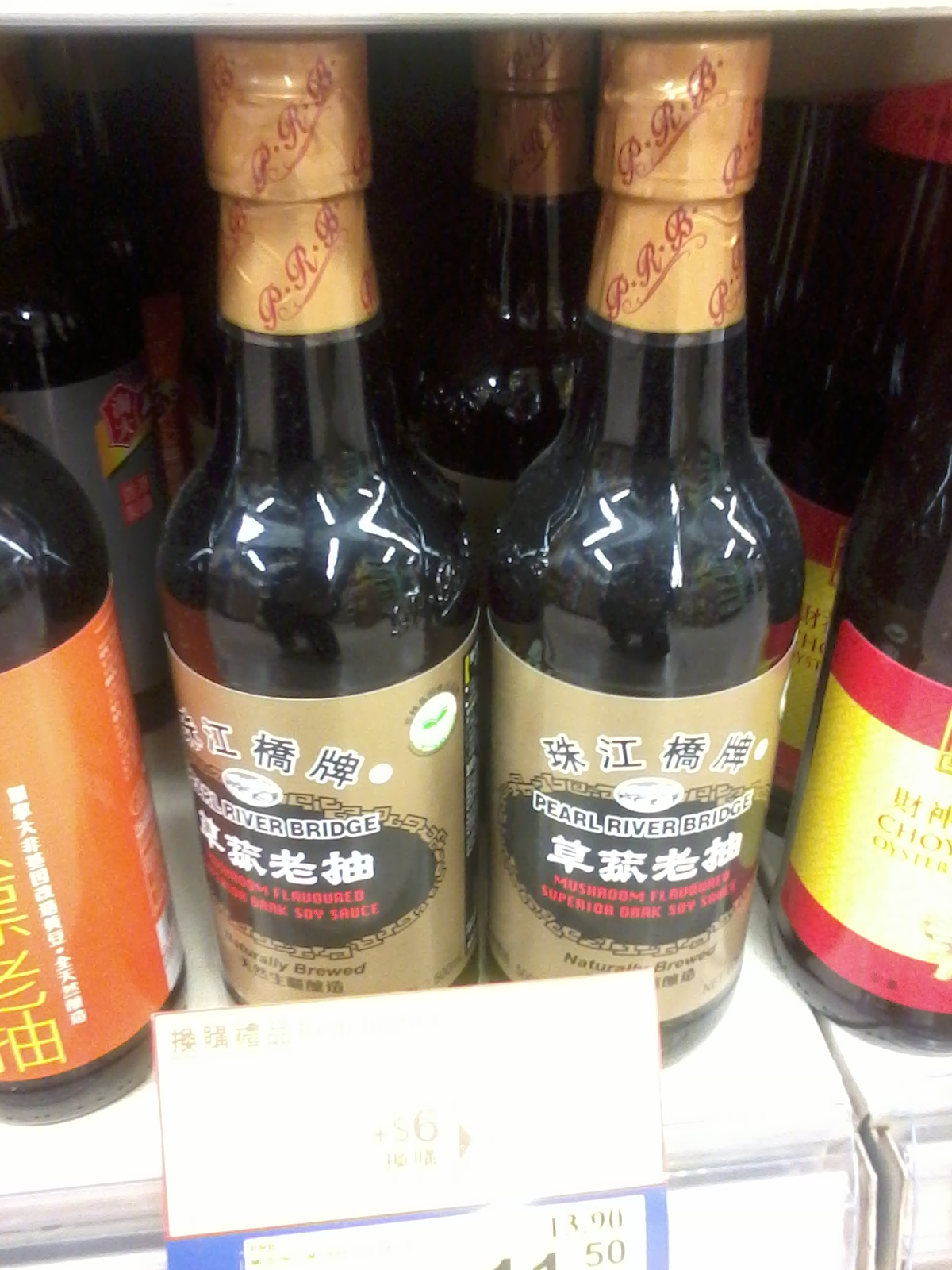 珠江橋牌